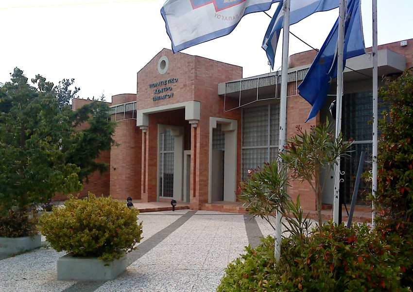 The Cultural Hall of Papagou, Greece, which is a suburb of the city of Athens.